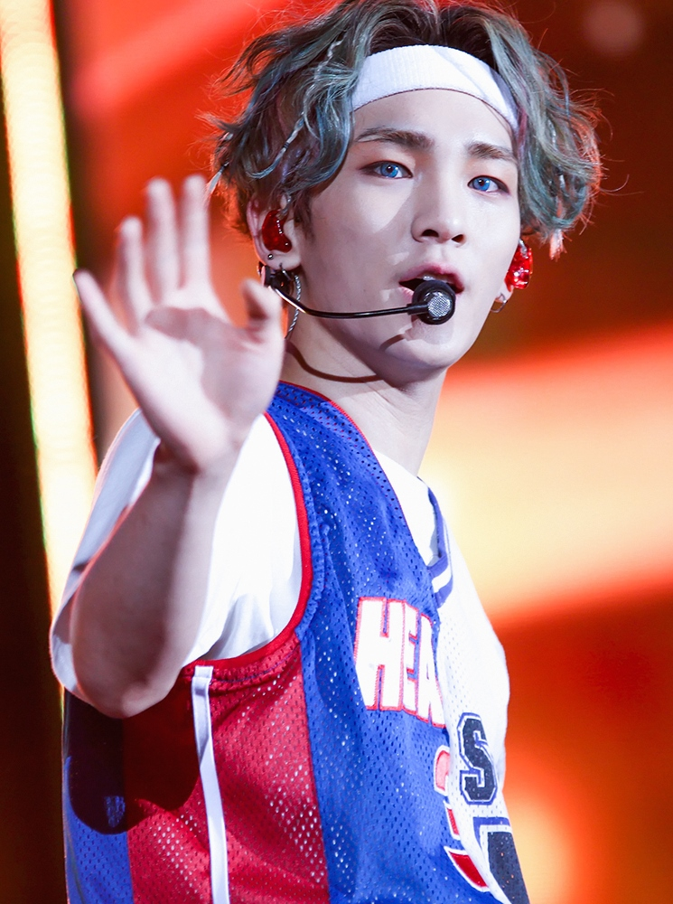 Key at Dream Concert on May 23, 2015.